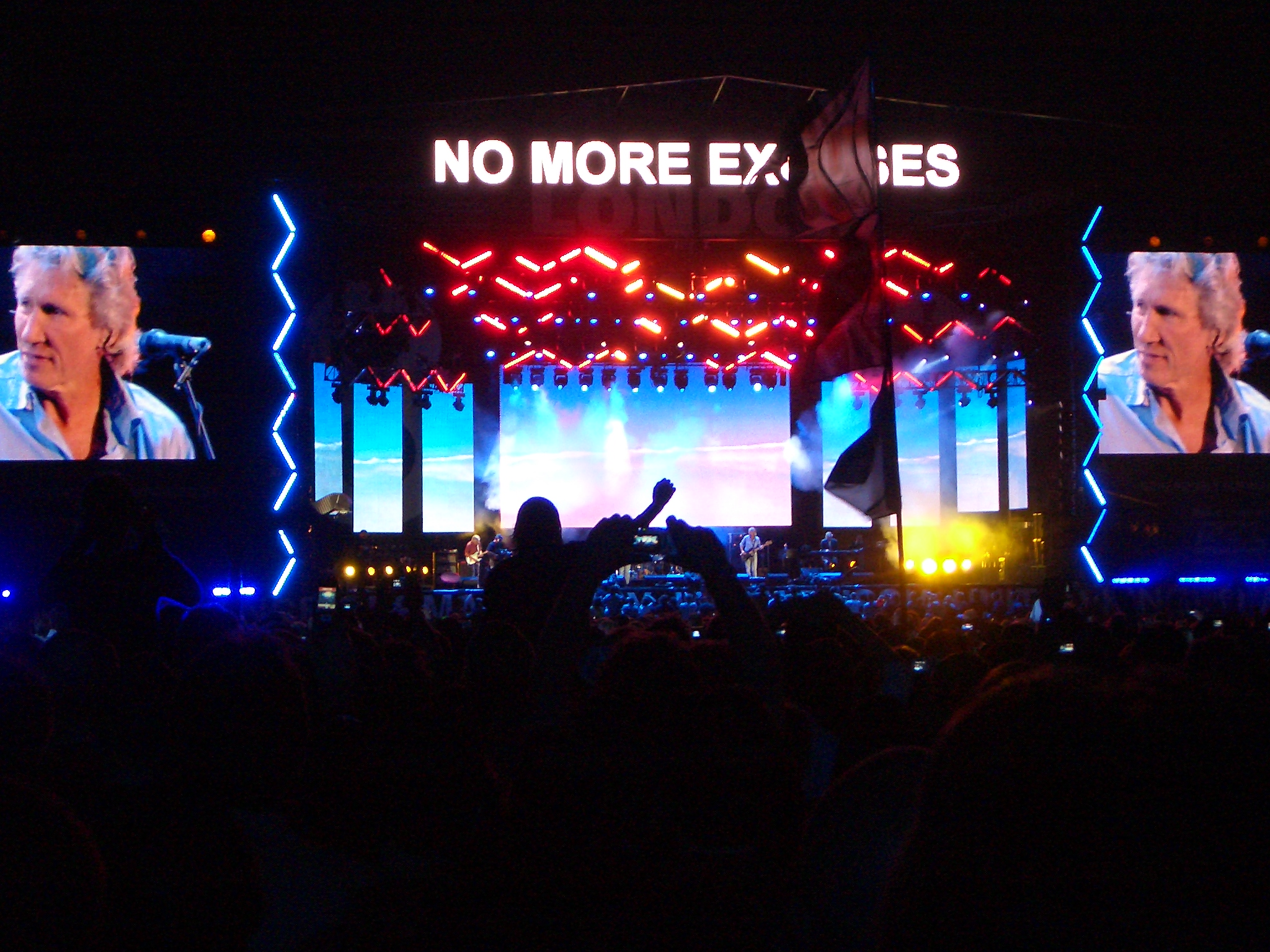 A reunited Pink Floyd perform at the Live 8 concert in Hyde Park, London